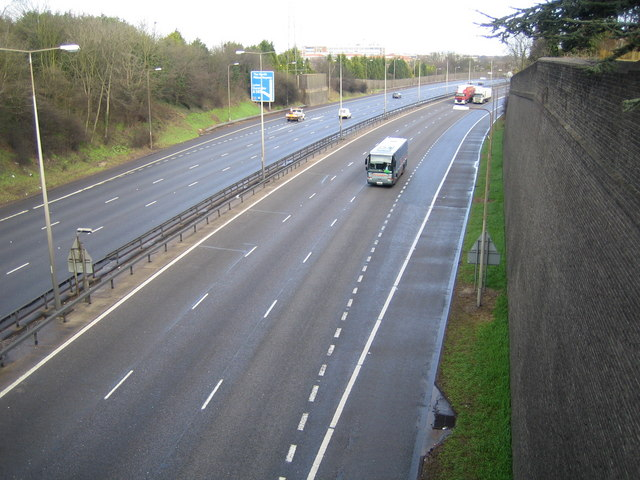 M1 Motorway near Luton, Bedfordshire